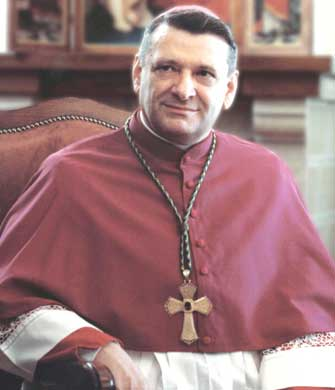 Picture of Paolo Rabitti, catholic Archbishop of Ferrara-Comacchio